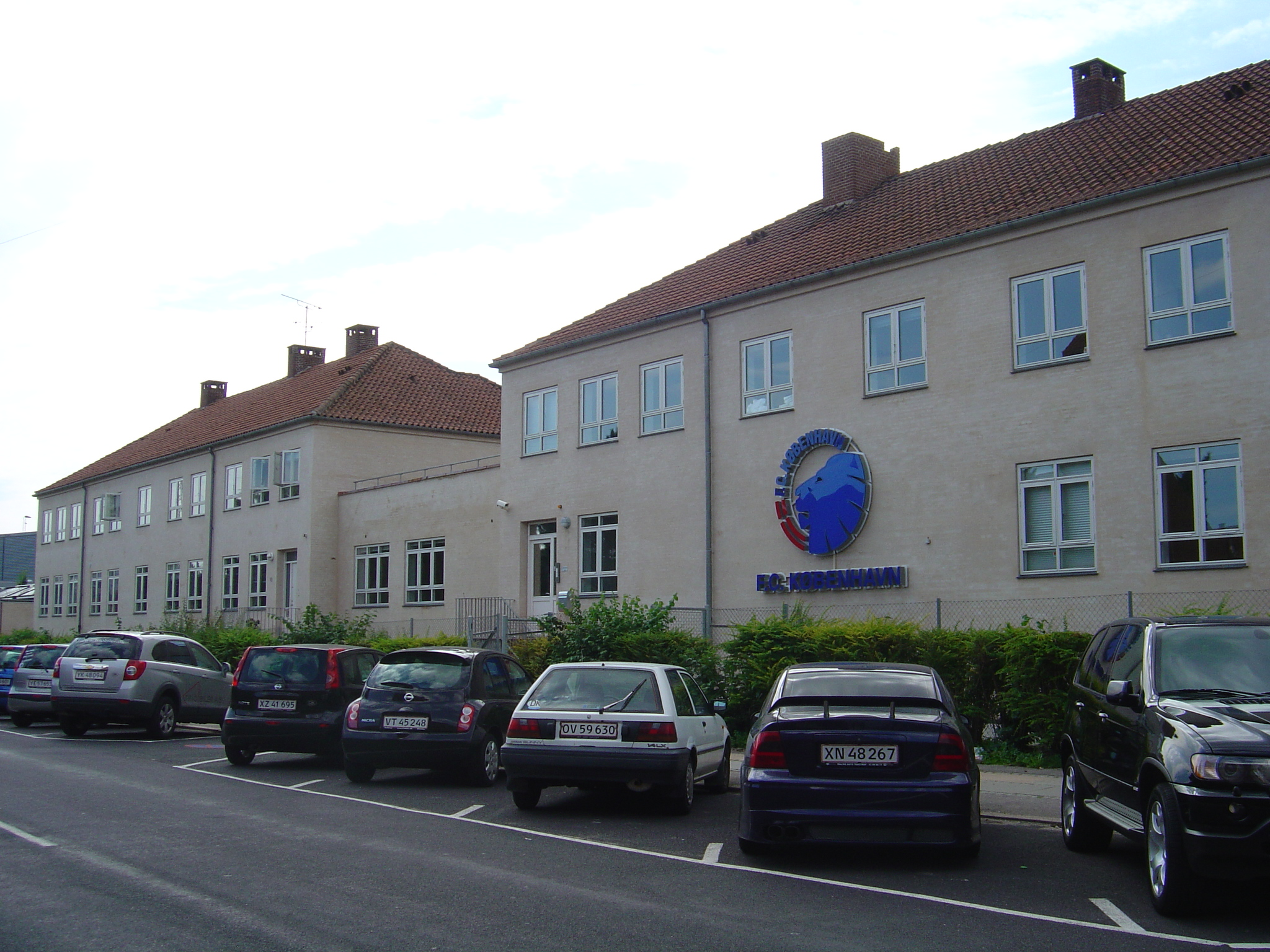 F.C. Copenhagen - their training facilities at Frederiksberg Idrætspark on Frederiksberg near Copenhagen. Seen from the eastern side on Jens Jessensvej.